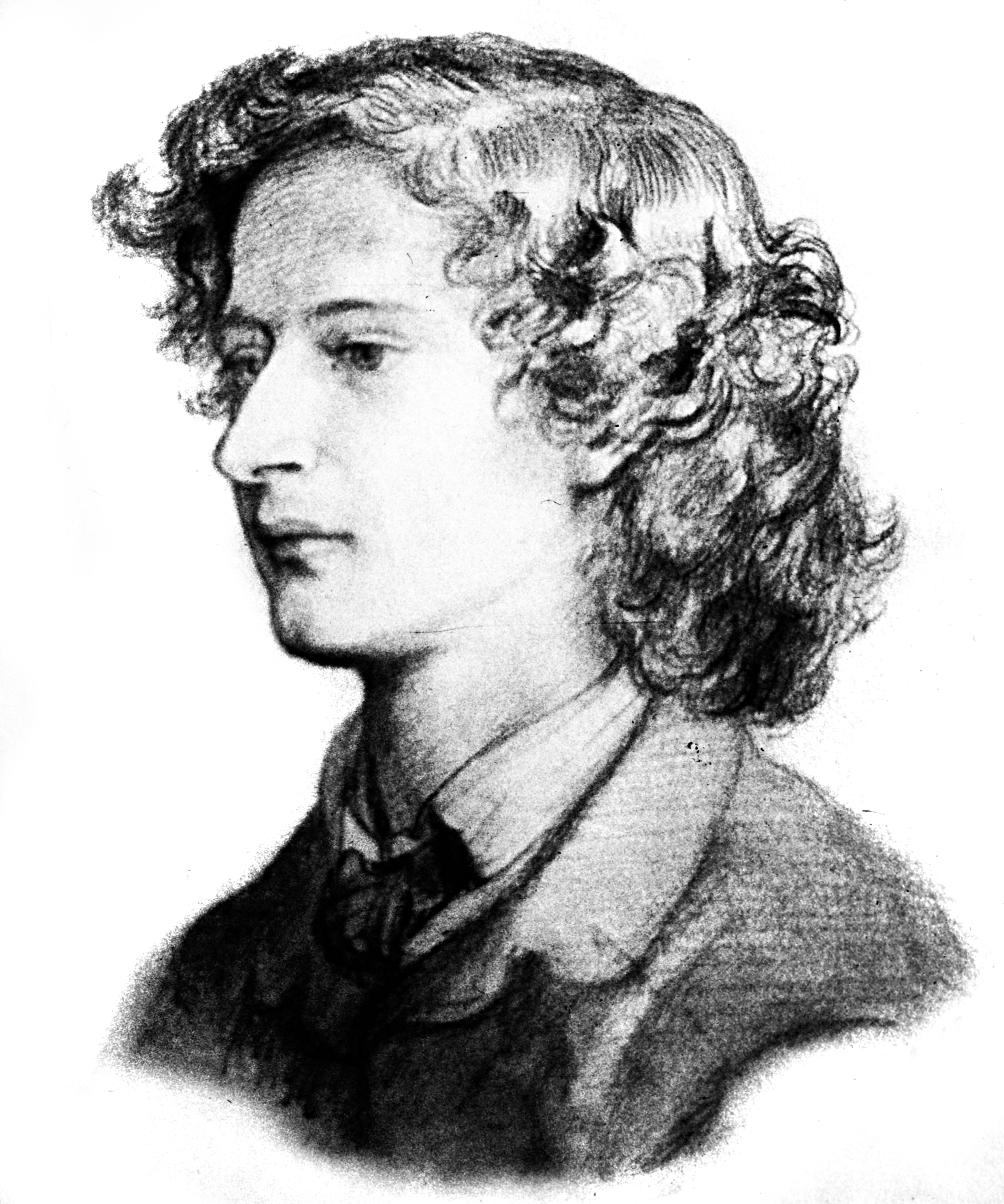 Sketched portrait of 23-year-old Algernon Charles Swinburne, poet and author.